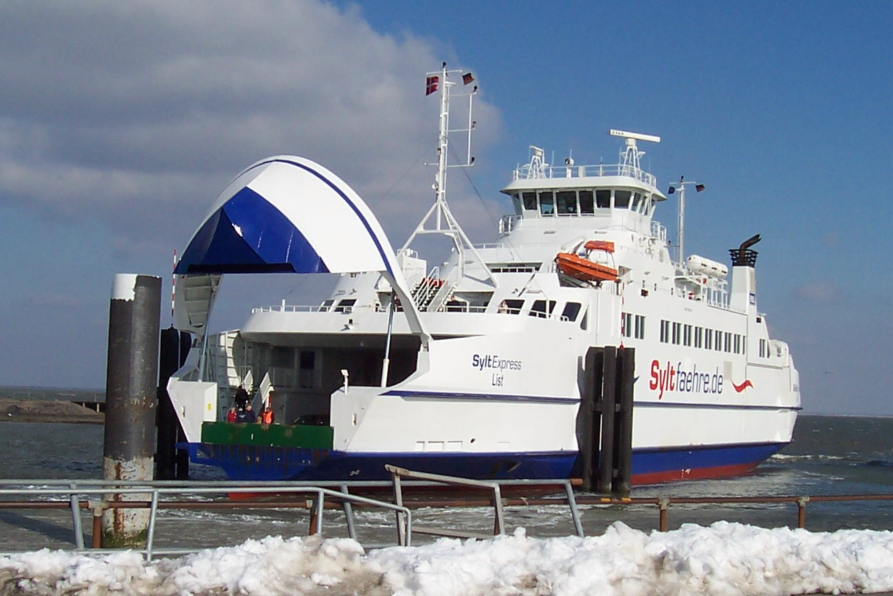 Double-end-ferry SyltExpress approaching the terminal in Havneby (Rømø)